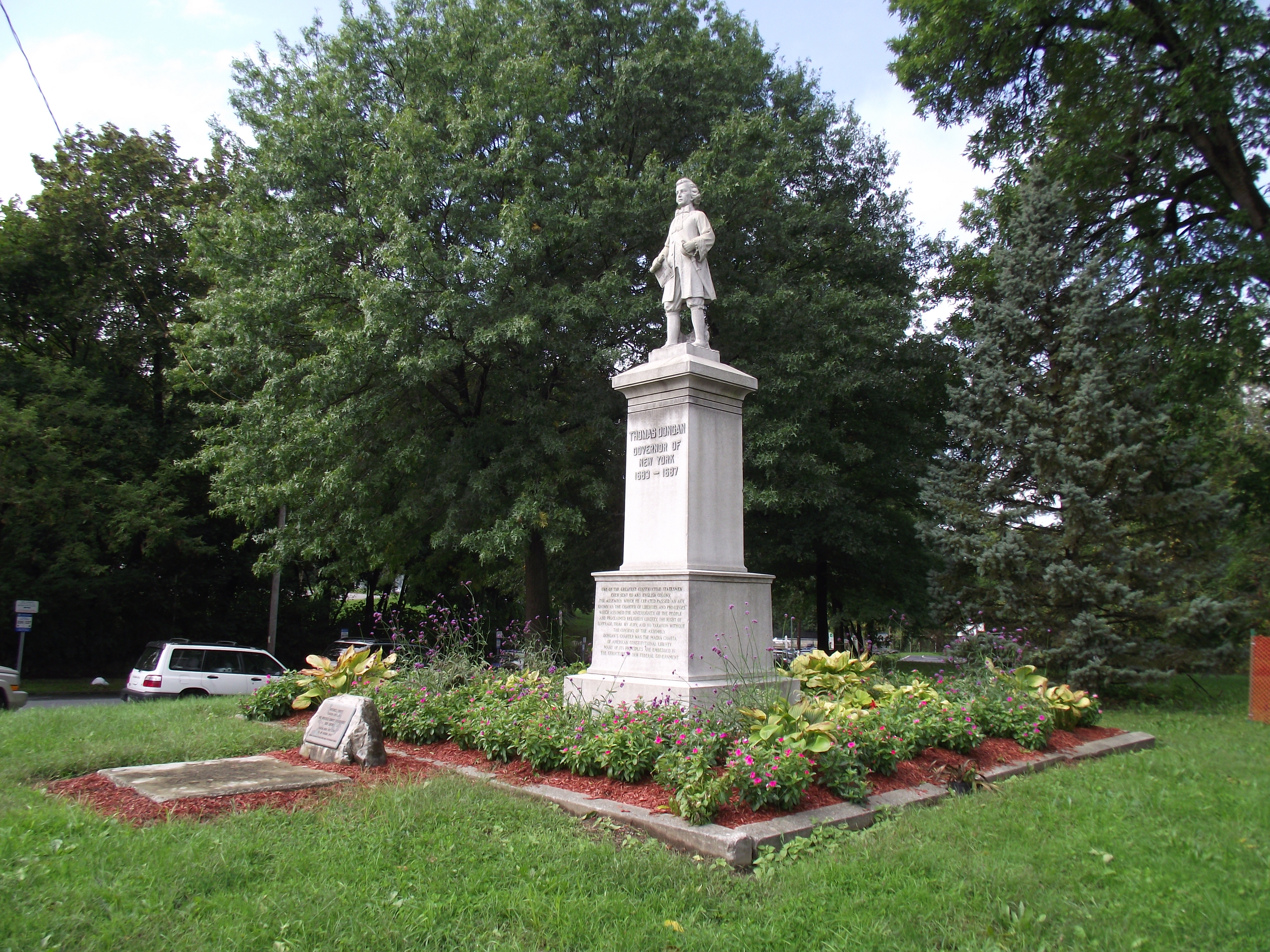 Statue of Thomas Dongan in Dongan Park adjacent to Dongan Place, Poughkeepsie, NY. Statue dedicated June, 1930 by then NY Governor Franklin D. Roosevelt. Dongan's views of the rights of the individual were clearly not those of his contemporaries.